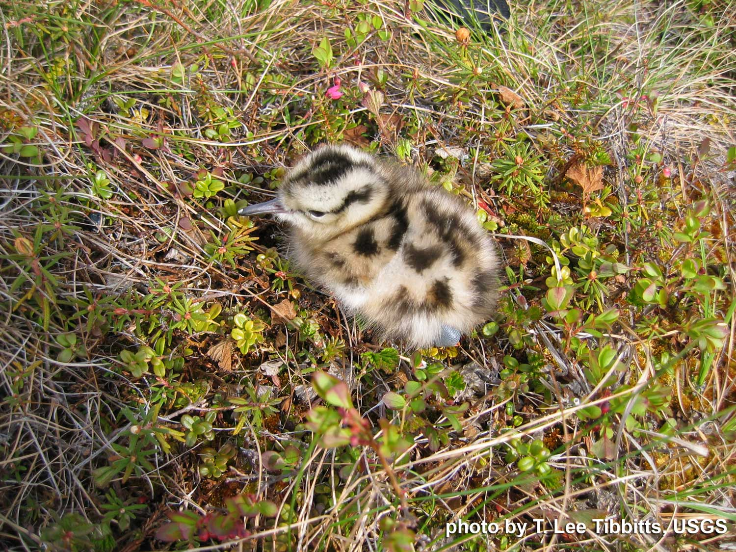 This unbelievably cute animal is a Bristle-thighed Curlew chick. Bristle-thighed Curlews are large shorebirds that breed in Alaska and spend the non-breeding season on atolls and small islands throughout Oceania. Berries like crowberries and blueberries tend to be a preferred food, as well as mosquitoes which are abundant in western Alaska—mmmm, yum! And just like Harry Potter and his invisibility cloak, the coloring and pattern of these downy chicks provides camouflage to protect them from avian and mammalian predators. Learn more at bit.ly/curlews